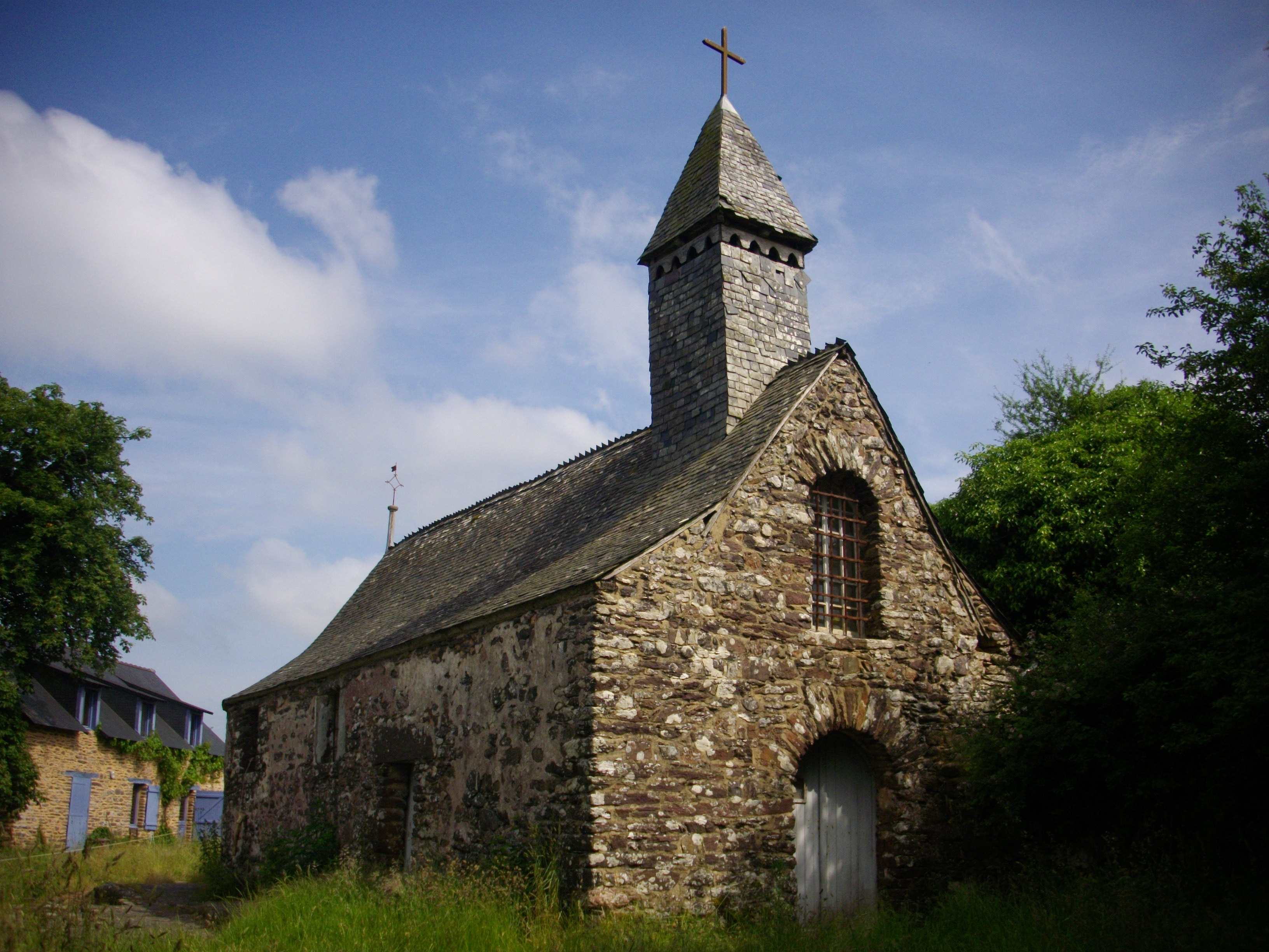 Saint Jean chapel in Campénéac (Morbihan, France)